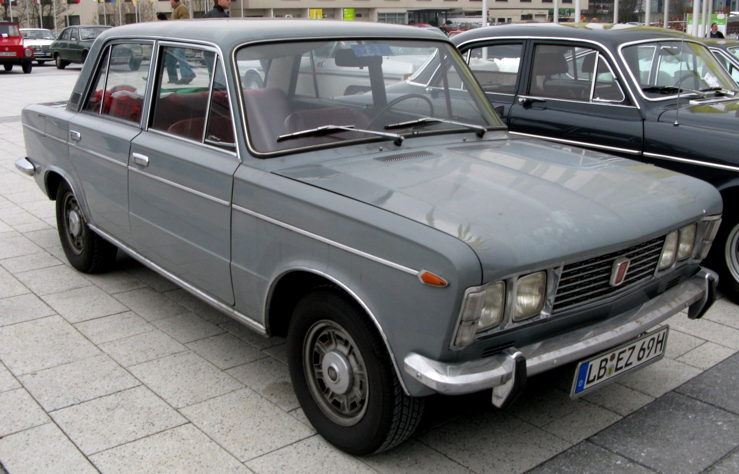 1969 Fiat 125 S